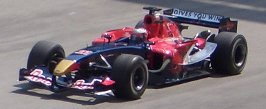 Scott Speed, Toro Rosso at Malaysian GP 2006